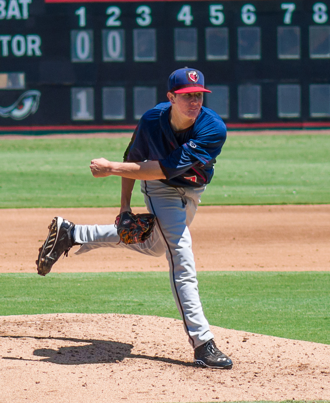 Houston Astros minor league pitcher Josh Hader playing for the Lancaster JetHawks in 2014